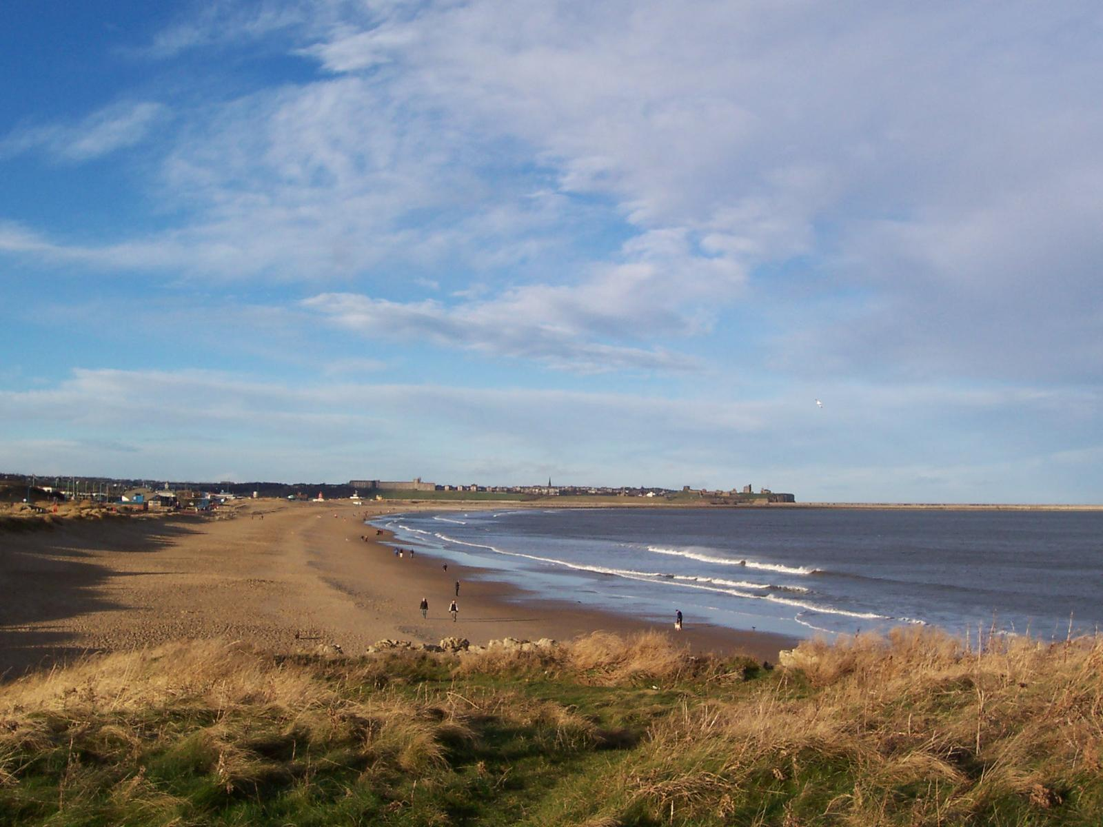 Sandhaven Beach, South Shields, South Tyneside. Tynemouth Priory can be seen in the distance. This image was taken on 26/12/2004 by Michael Smith ( on a Kodak CX7330 digital camera.